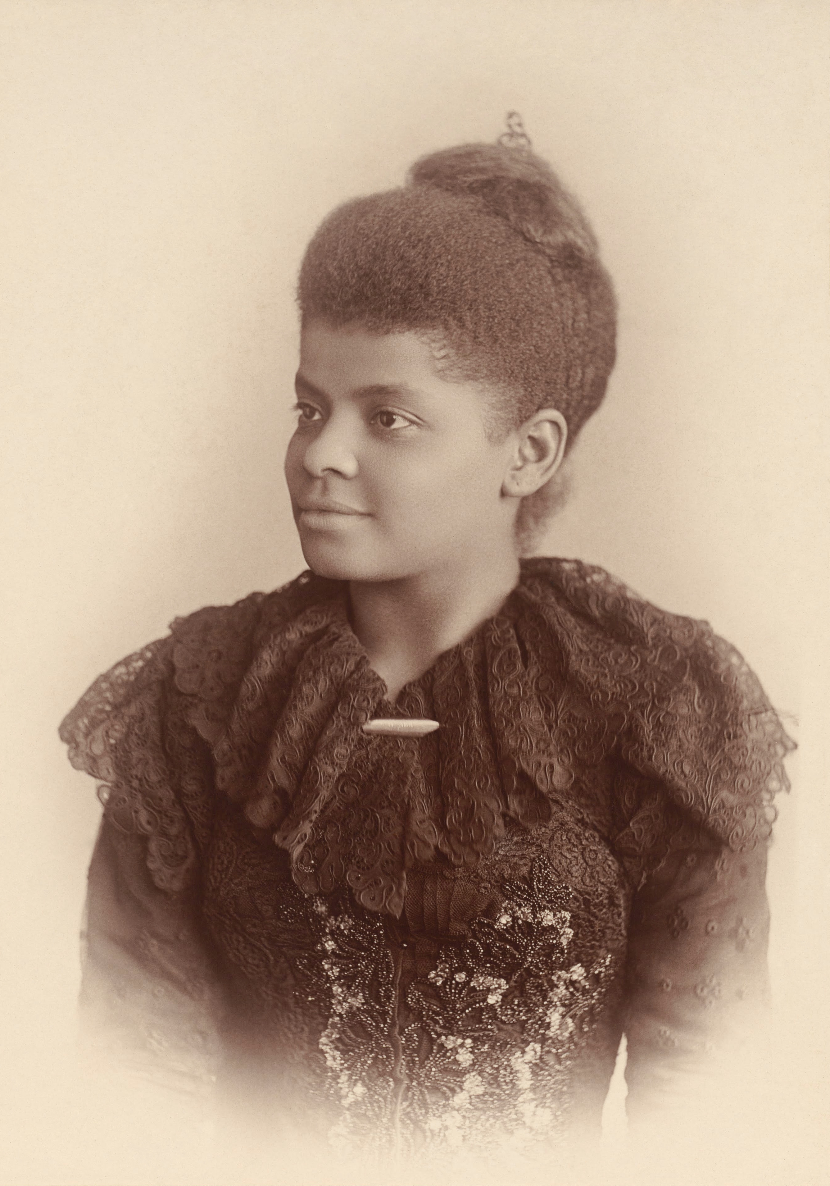 Ida B. Wells Barnett, in a photograph by Mary Garrity from c. 1893. This version has been cropped from the original photographic card to approximately the photo itself (the borders aren't quite straight, so I did the best crop I could manage with the restriction), and has also had dirt and specks removed, and the saturation very slightly tweaked.